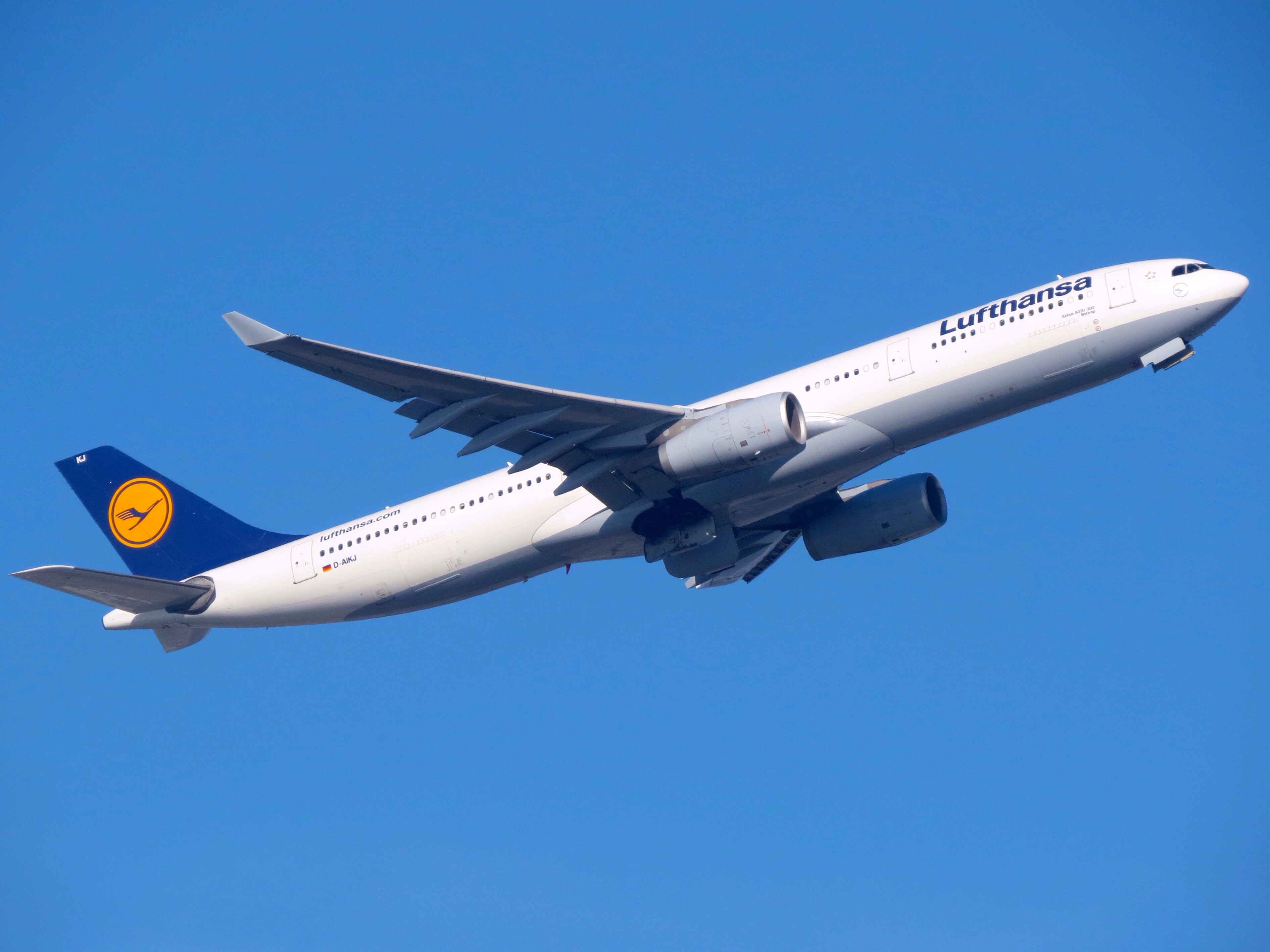 Lufthansa Airbus A330-343